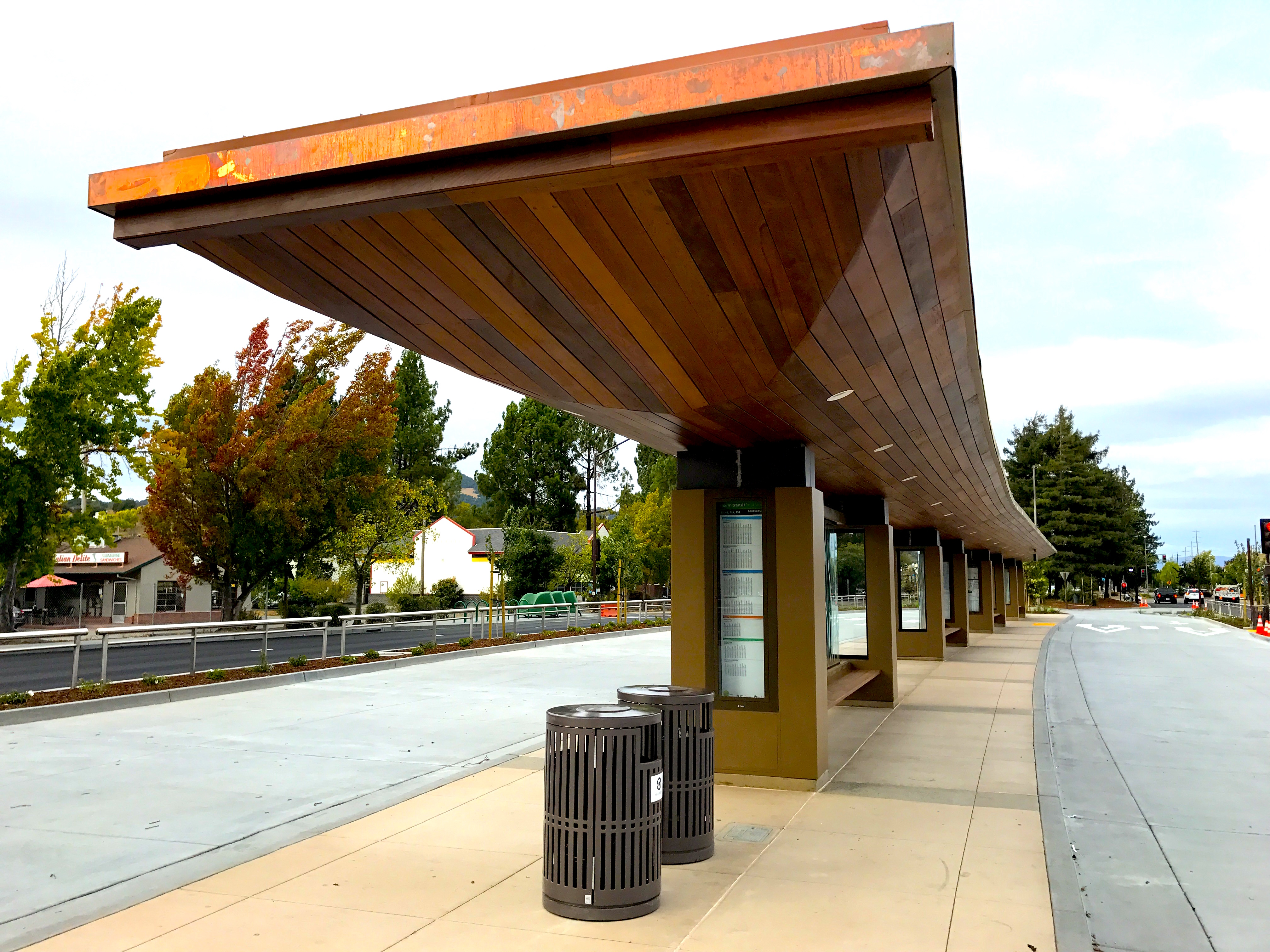 Novato Bus Station